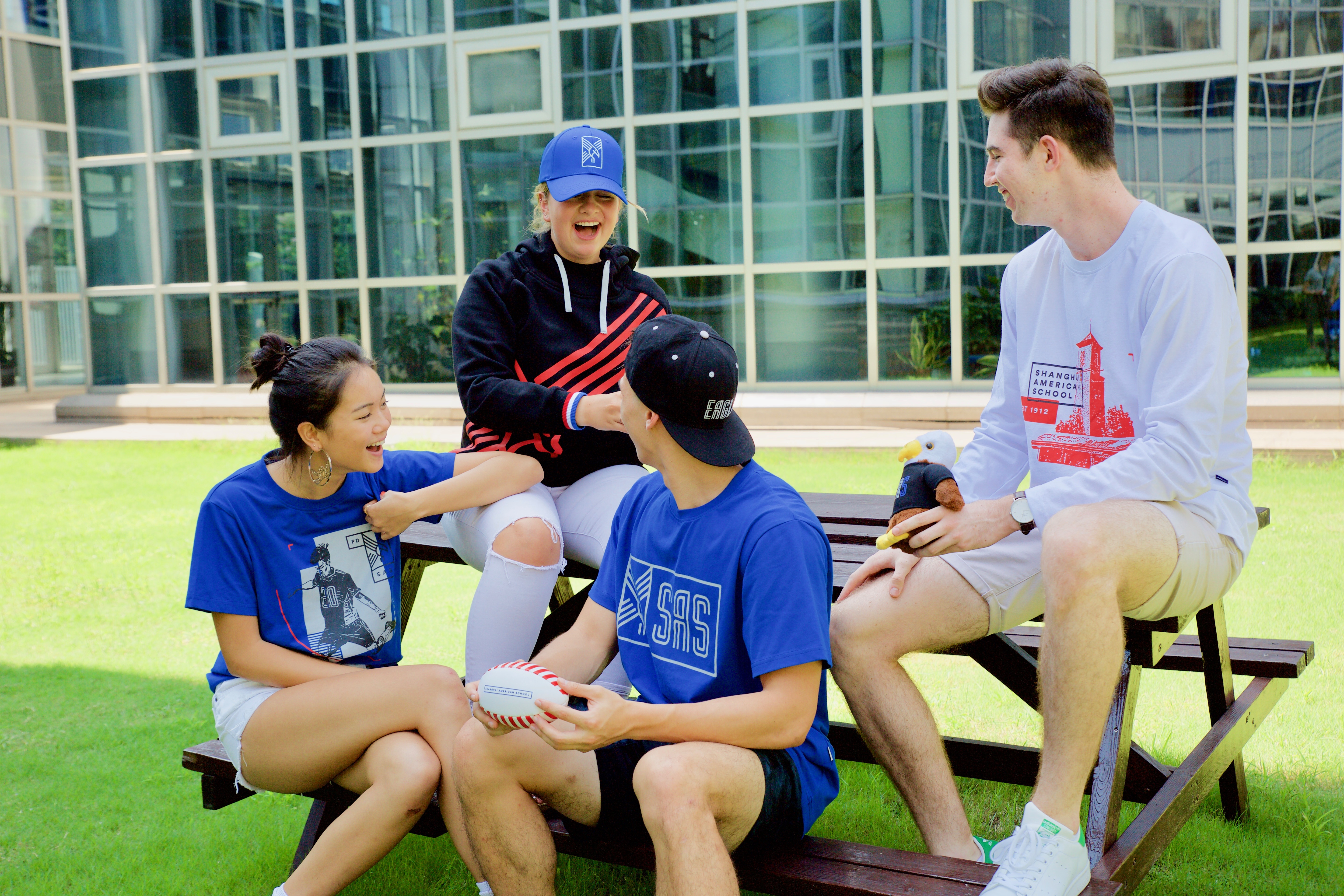 High school students, SAS Pudong